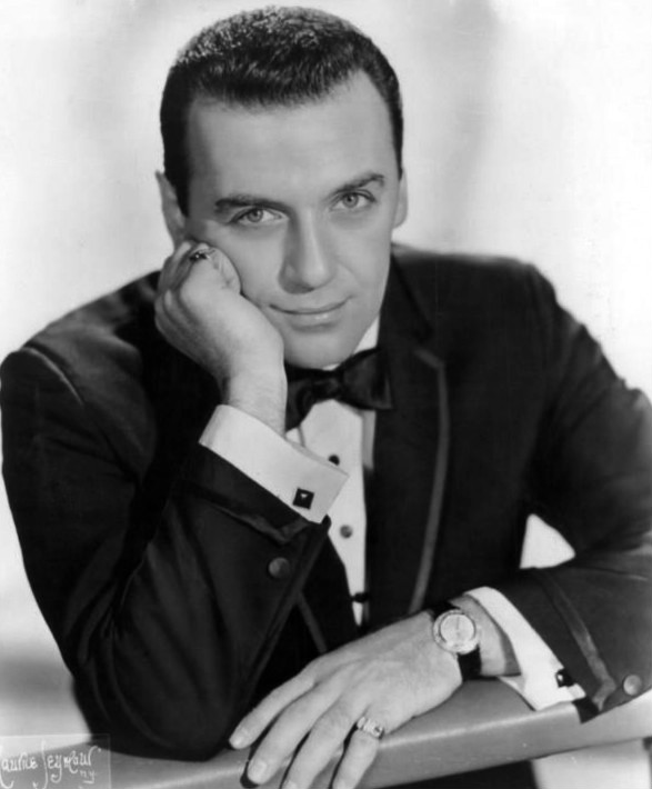 Publicity photo of comedian Norm Crosby.